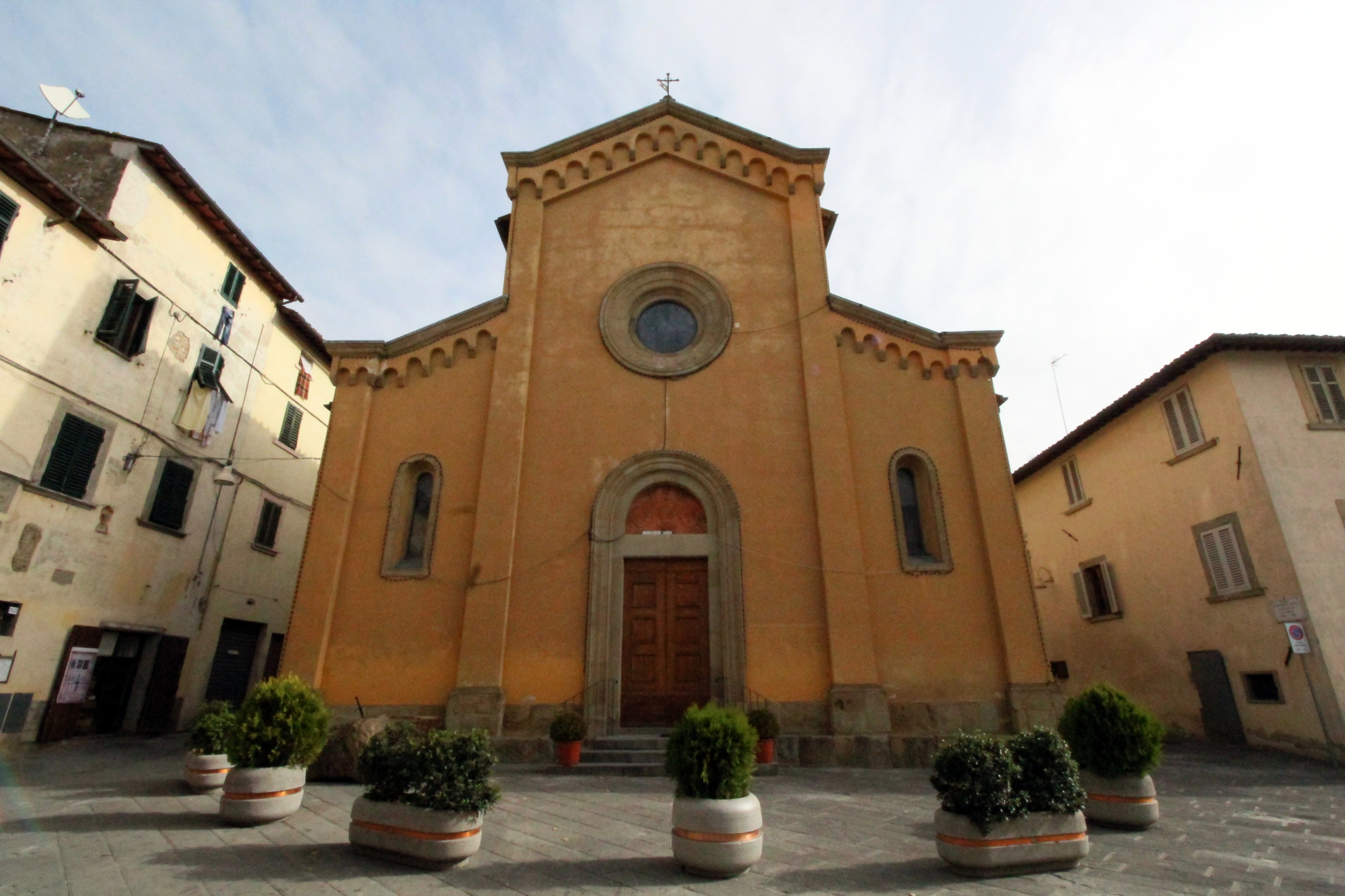 Church Santi Ippolito e Cassiano, city center of Laterina, Province of Arezzo, Tuscany, Italy